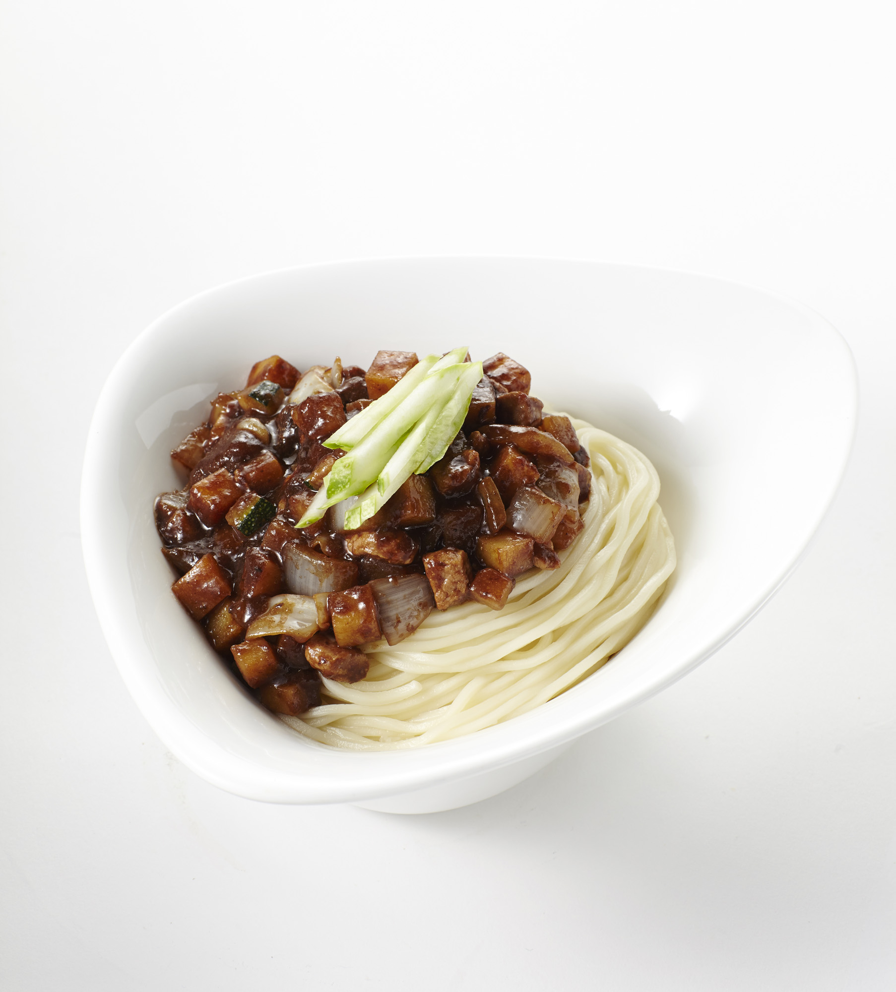 Korean Chinese noodles